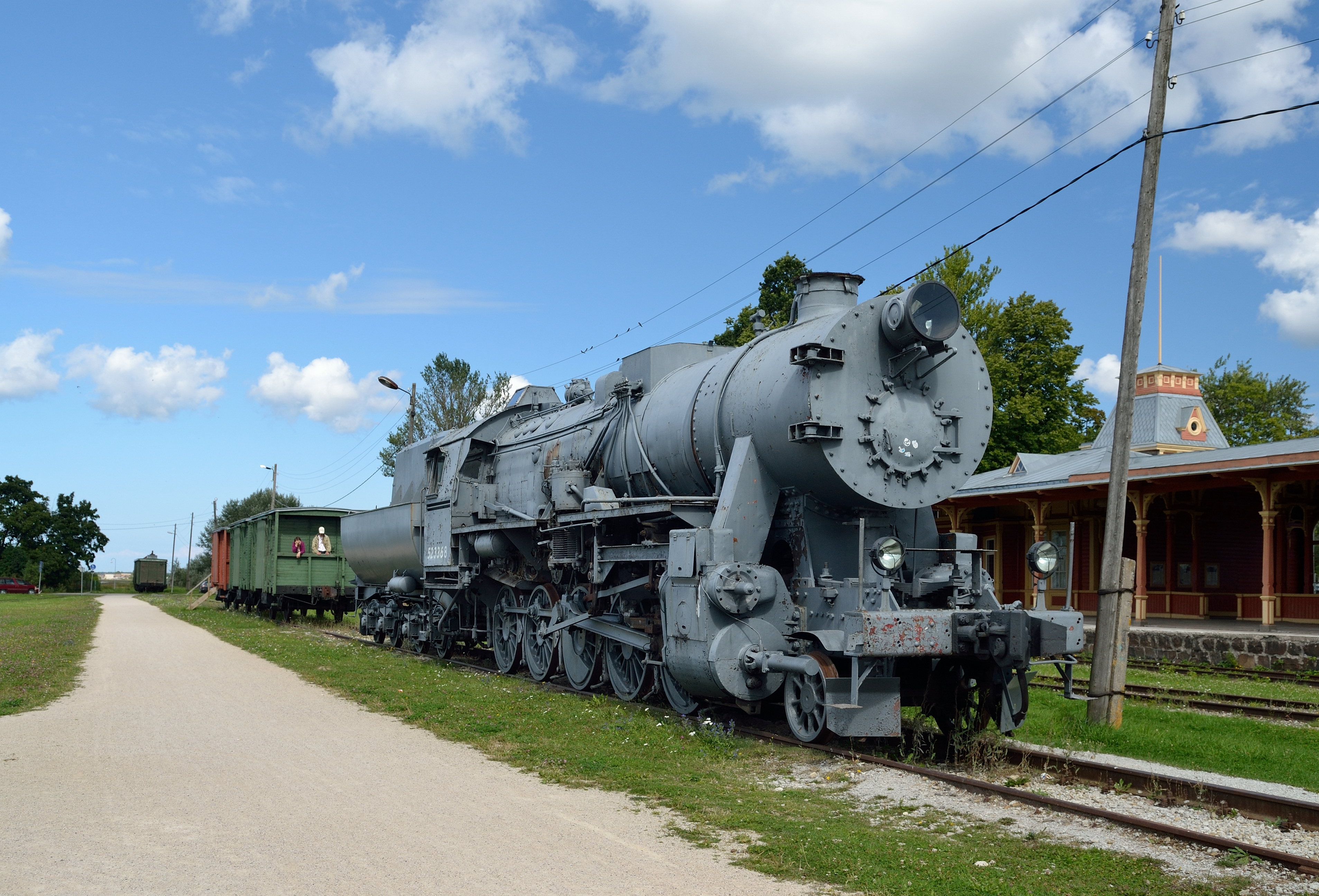 Steam locomotive 52 3368 in Haapsalu. Built in 1943 Munich, Krauss-Maffei factory.